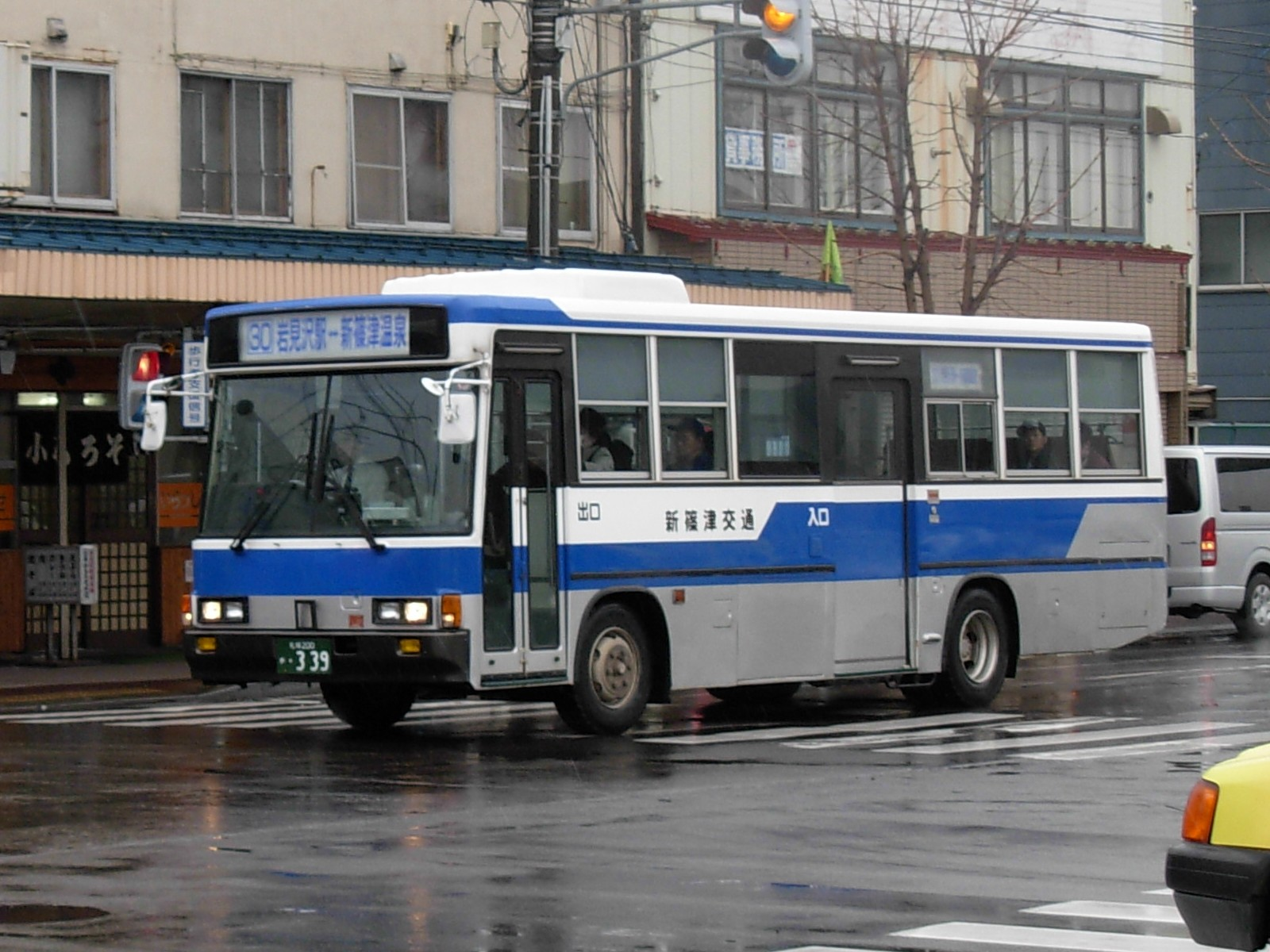 Bus of Shinshinotsu kotsu. Bus transferred by JR Hokkaidō Bus.